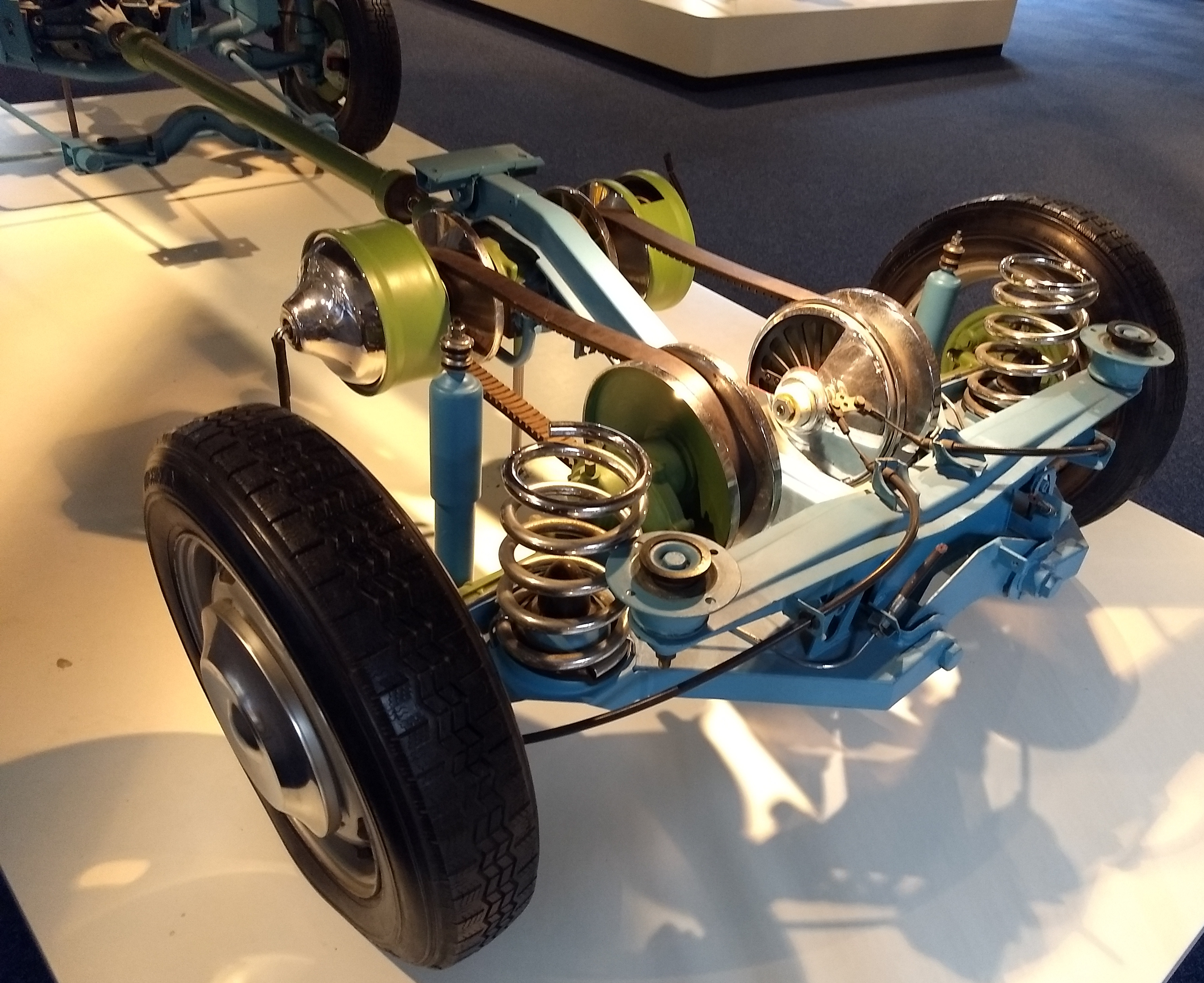 CVT gearbox of a DAF 55, chassis lifted from frame